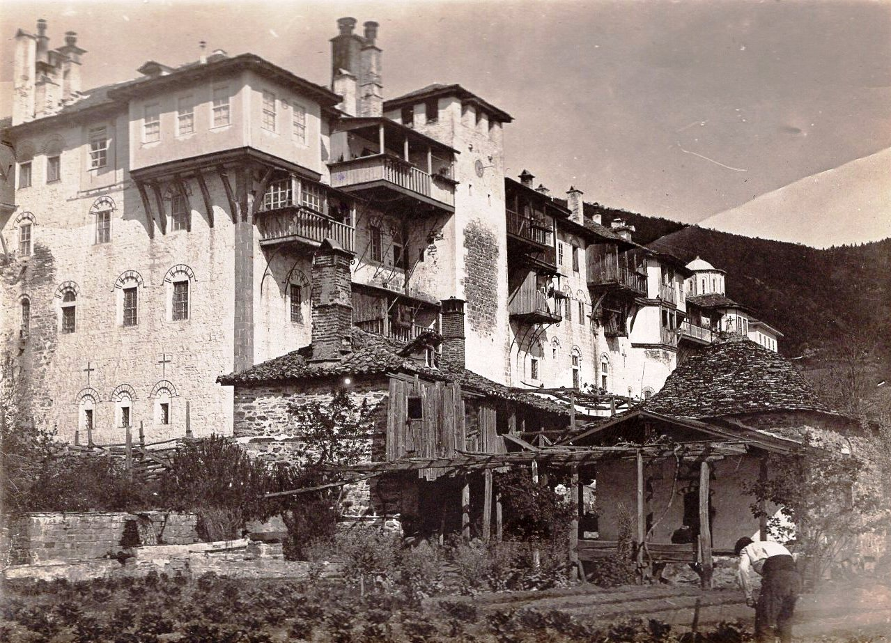 Xiropotamos Monastery, on Mount Athos. Photographed around 1915 This media file is produced by Wikipedian in Residence in Category:Wikipedian in Residence at DARM in 2016.